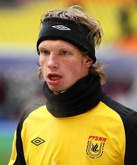 Giedrius Arlauskis in action for FC Rubin Kazan